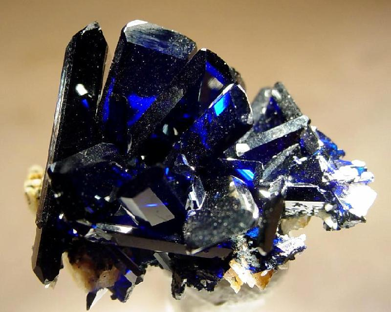 Azurite Locality: Touissit, Touissit District, Oujda-Angad Province, Oriental Region, Morocco (Locality at ) Size: thumbnail, 2.6 x 1.9 x 1.9 cm Azurite inCREDible! Words and pics cannot adequately convey how fantastic this specimen is and I rate it as hands-down one of the best azurite thumbs I have ever seen or handled at any price. Each and every sharp blade is perfect: superb luster, great form, and a deep azure blue color that is easily seen because the crystals have such a fantastic and unusual clarity to them. If it were Tsumeb, one could ask and get $1000...but a small bit of attached matrix on back gives it away as Moroccan. If this doesnt get snapped up in the first 30 seconds of posting, I will be shocked. 2.6 x 1.9 x 1.9 cm